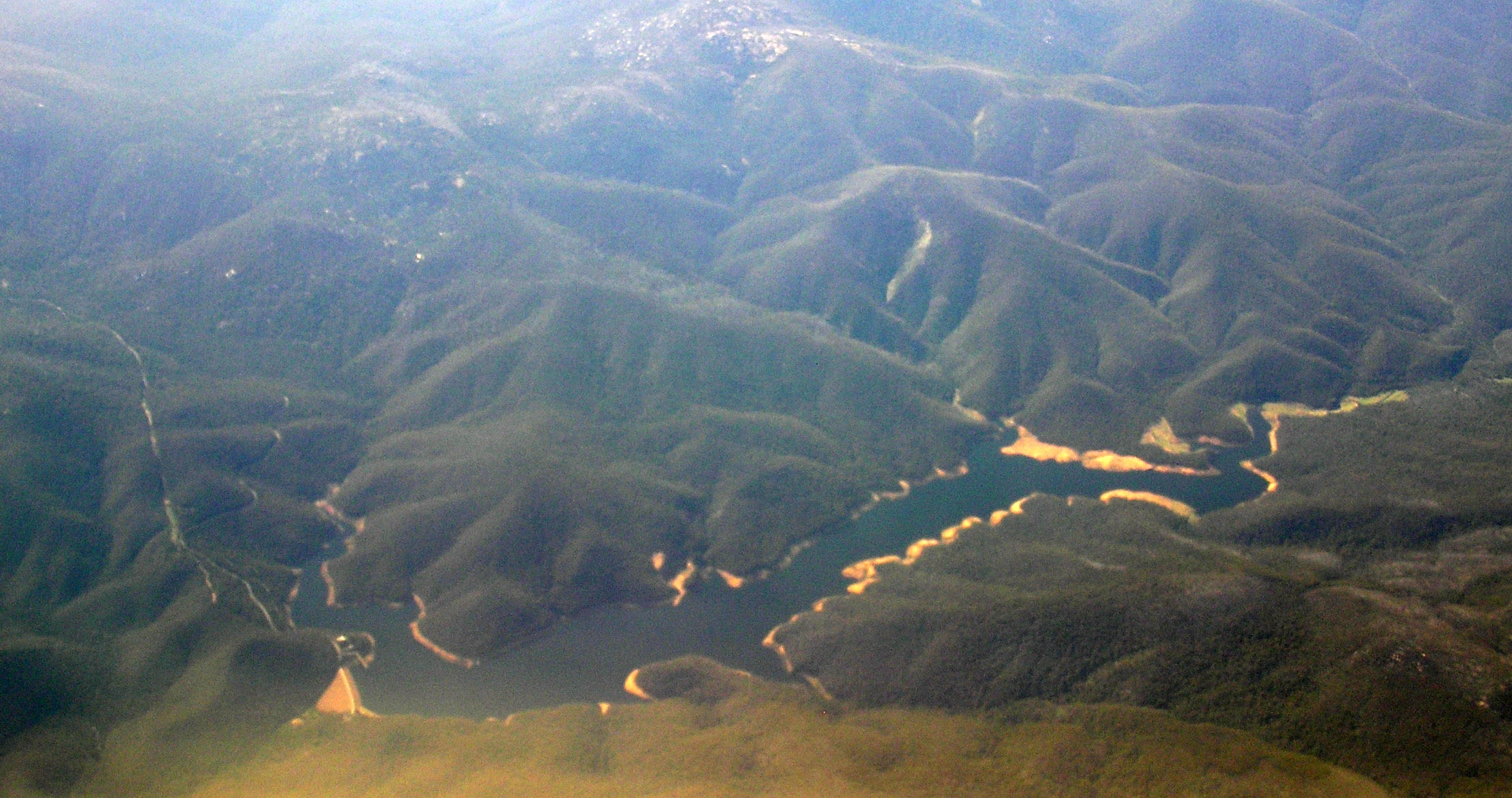 Aerial view of Corin Dam Australian Capital Territory from west